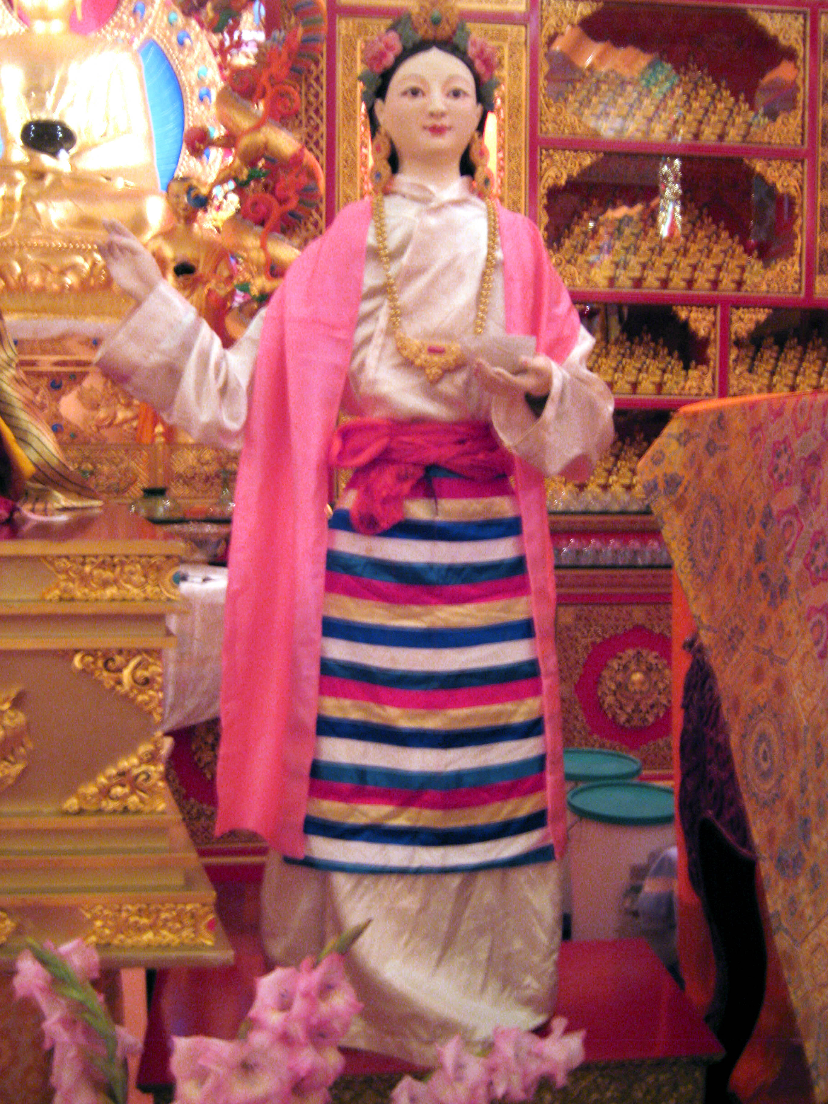 Consort of Guru Rinpoche. Guru Rinpoche Drubcho, Samye Ling. August 2010.